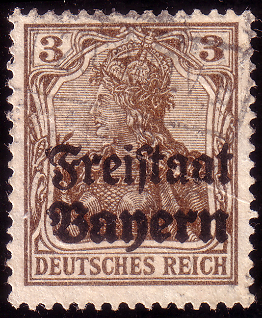 Postage stamp of Freestate of Bavaria, 3 pfennigs, 1919 (Scott#177)